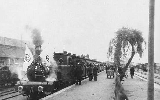 Toyokawa Railway in 1897